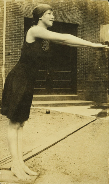 Olga Dorfner, a photo printed on a card